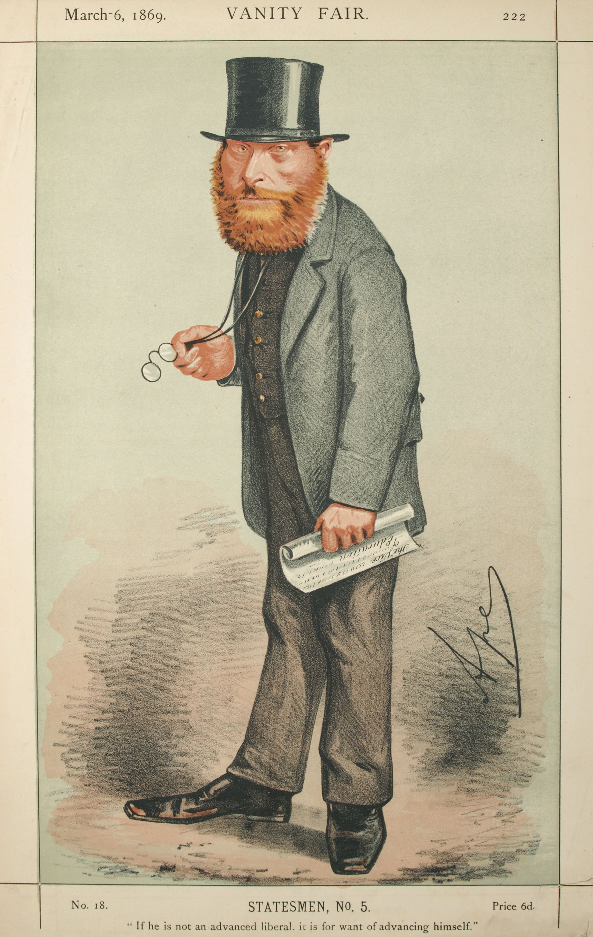 Statesmen No.5: Caricature of The Rt Hon WE Forster. Caption reads: "If he is not an advanced liberal, it is for want of advancing himself."